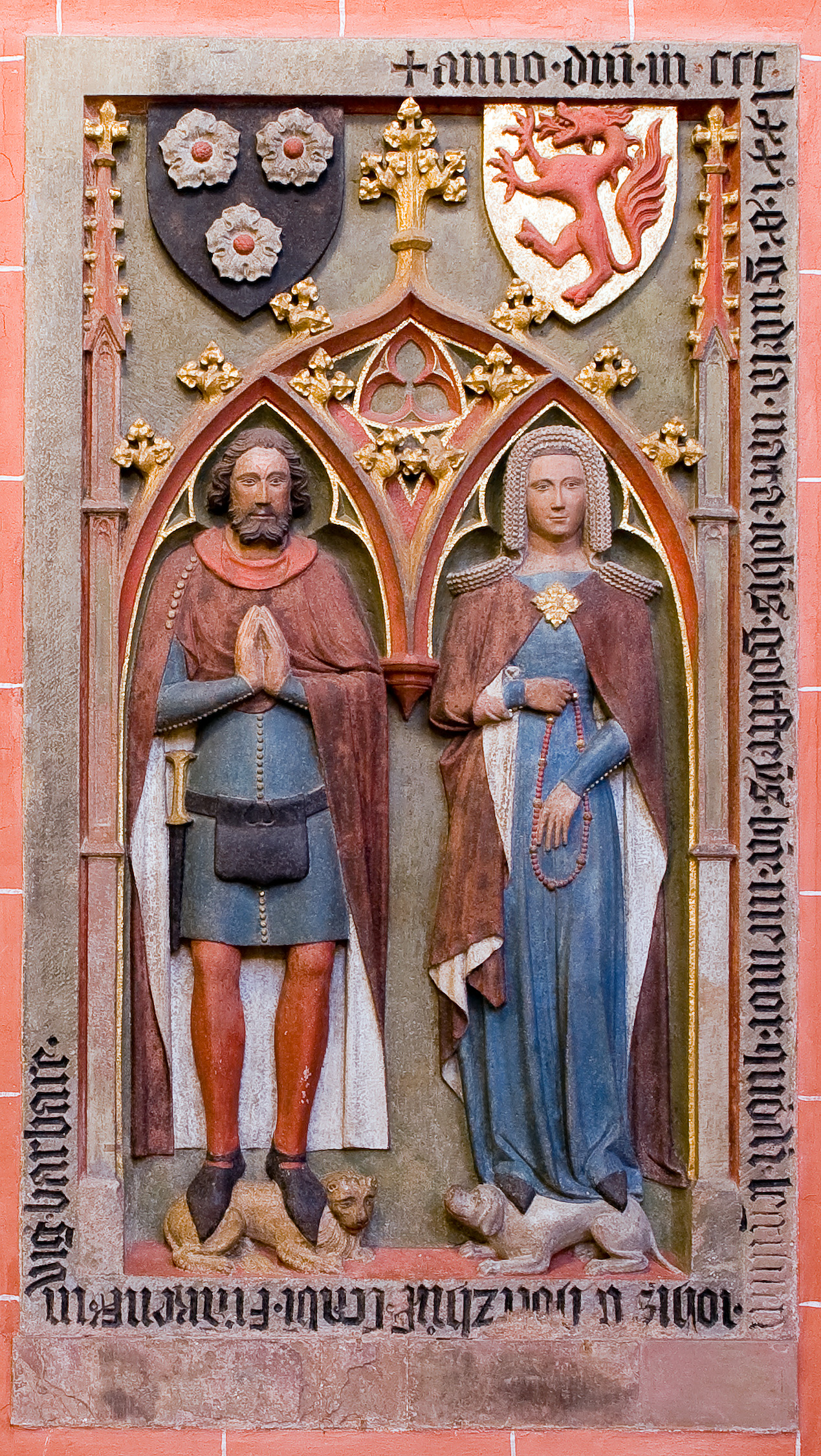 Frankfurt on the Main: Tomb of Johann von Holzhausen († 1393) and his wife Guda, geb. Goldstein († 1371) in Frankfurt Cathedral